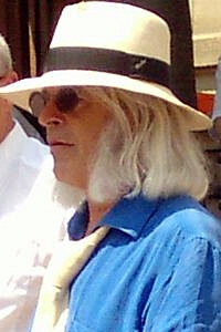 Bietigheim-Bissingen, Germany: Opening of the "Villa Visconti", Sculptor Jürgen Goertz speaks to the audience